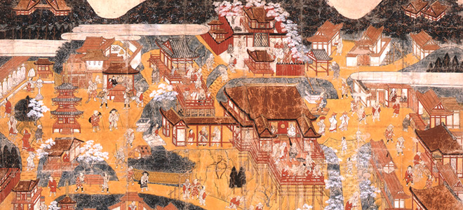 Kiyomizudera Sankei Mandala, Kiyomizudera, Kyoto, Japan